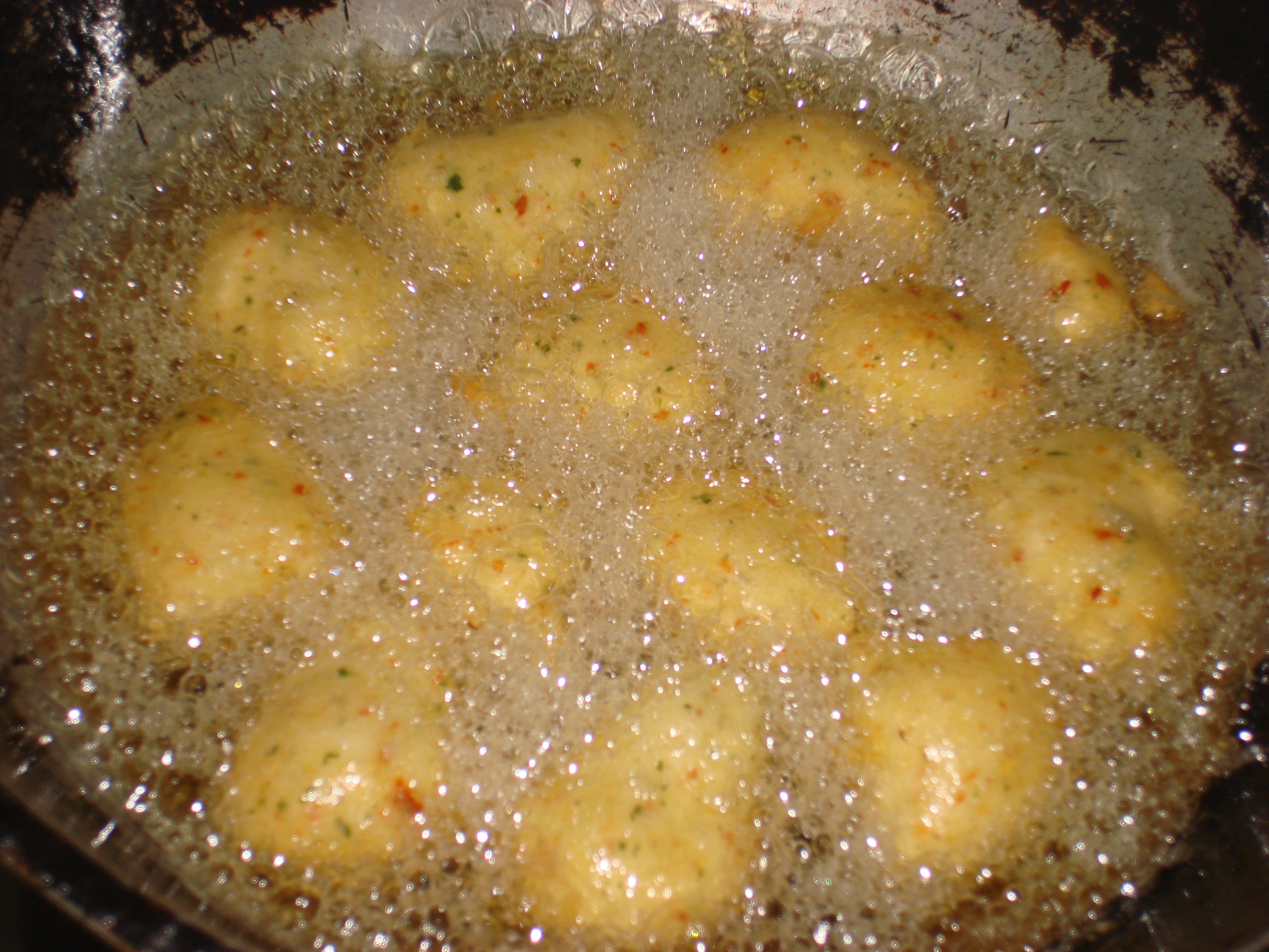 Description: Vada food Date:26-07-14 Author: manavatha source: Own work Other information Description: Vada food Date:26-07-14 Author: manavatha source: Own work